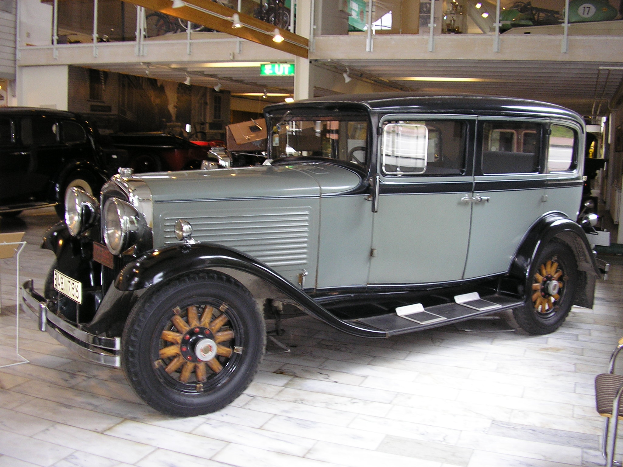 1929 Marmon 8-69 Hayes Sedan